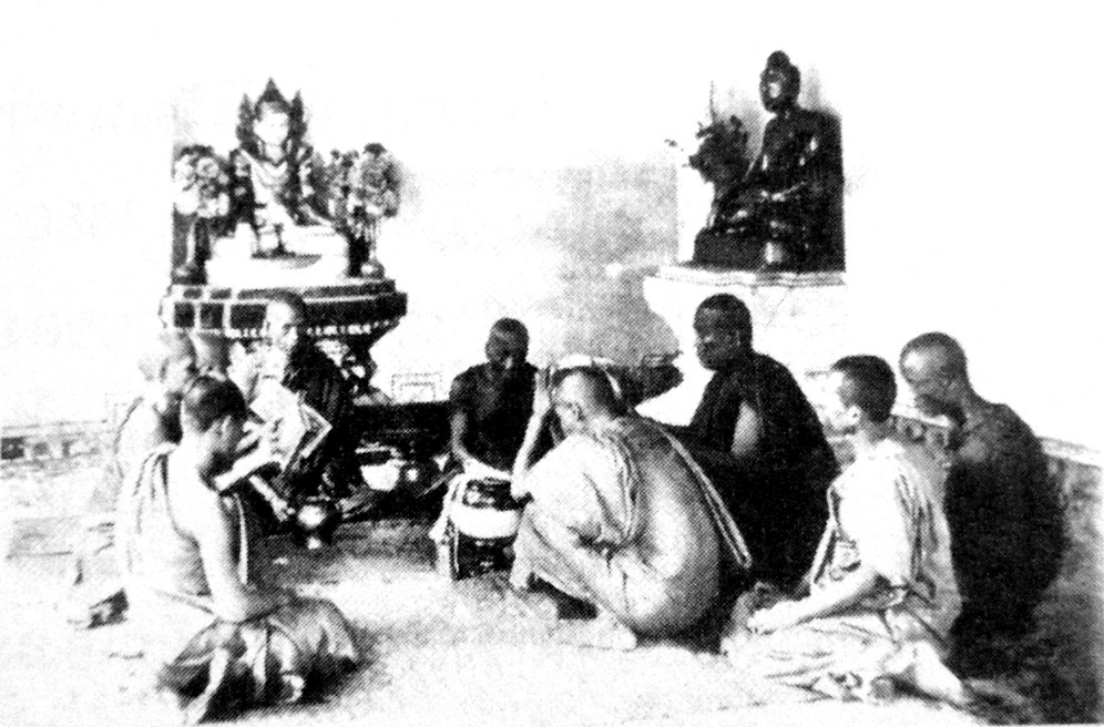 Upasampada of Buddhist monk in Burmaမြန်မာဘာသာ: ဥပသမ္ပဒကံ (ပဉ္စင်းခံပွဲ)